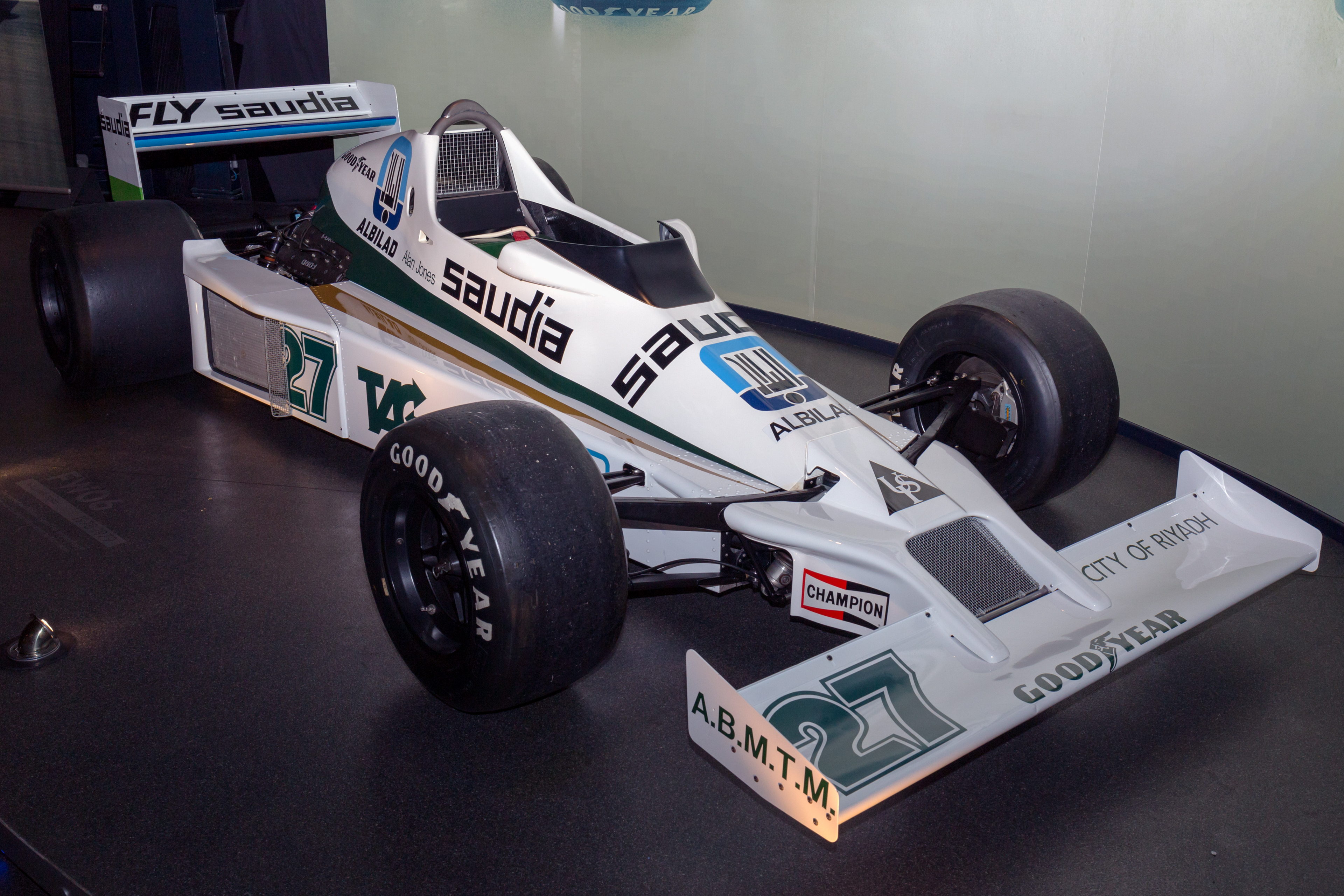 Williams Conference Centre (Grove): Williams FW06 of Alan Jones